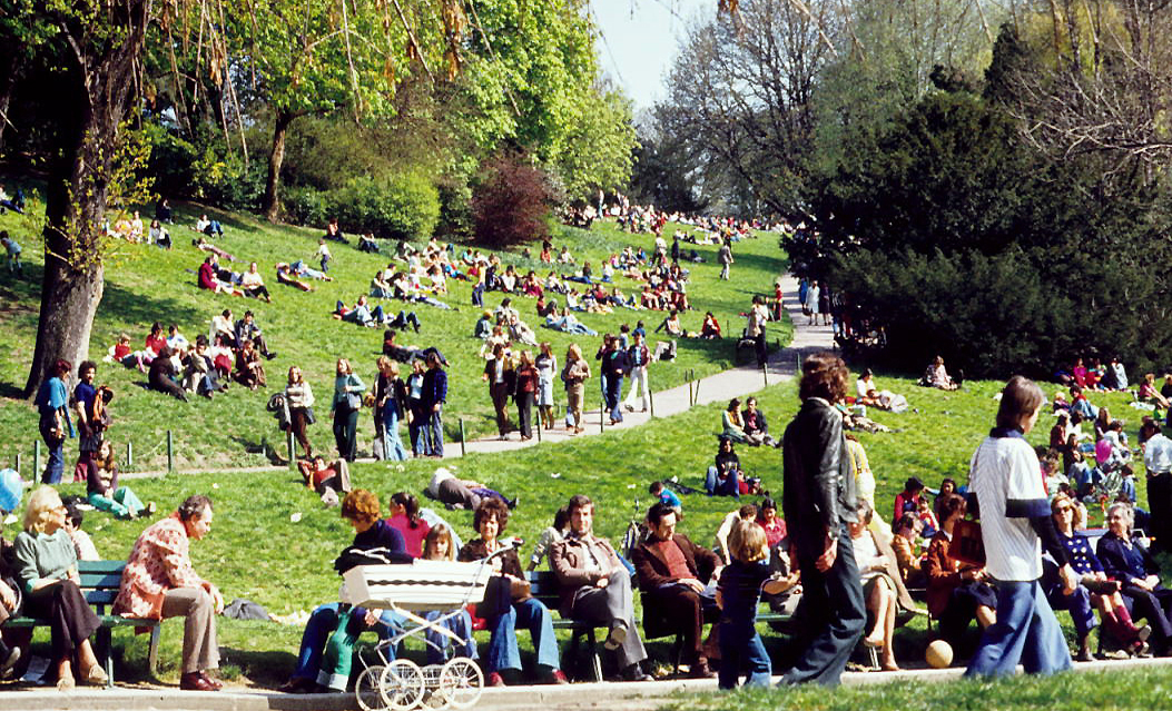 People sunbathing at Buttes-Chaumont. Paris, France